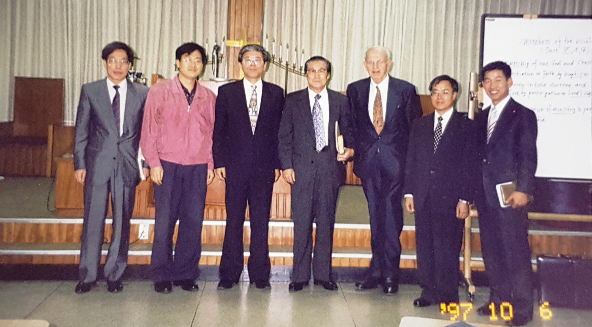 Korean Calvinists with Dr. Wilhelm Heinrich Neuser 6th Oct. 1997, Asia United Theological University